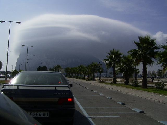 Rock of Gibraltar in Clouds